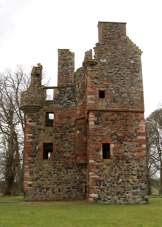 Greenknowe Tower, Scottish Borders, Scotland